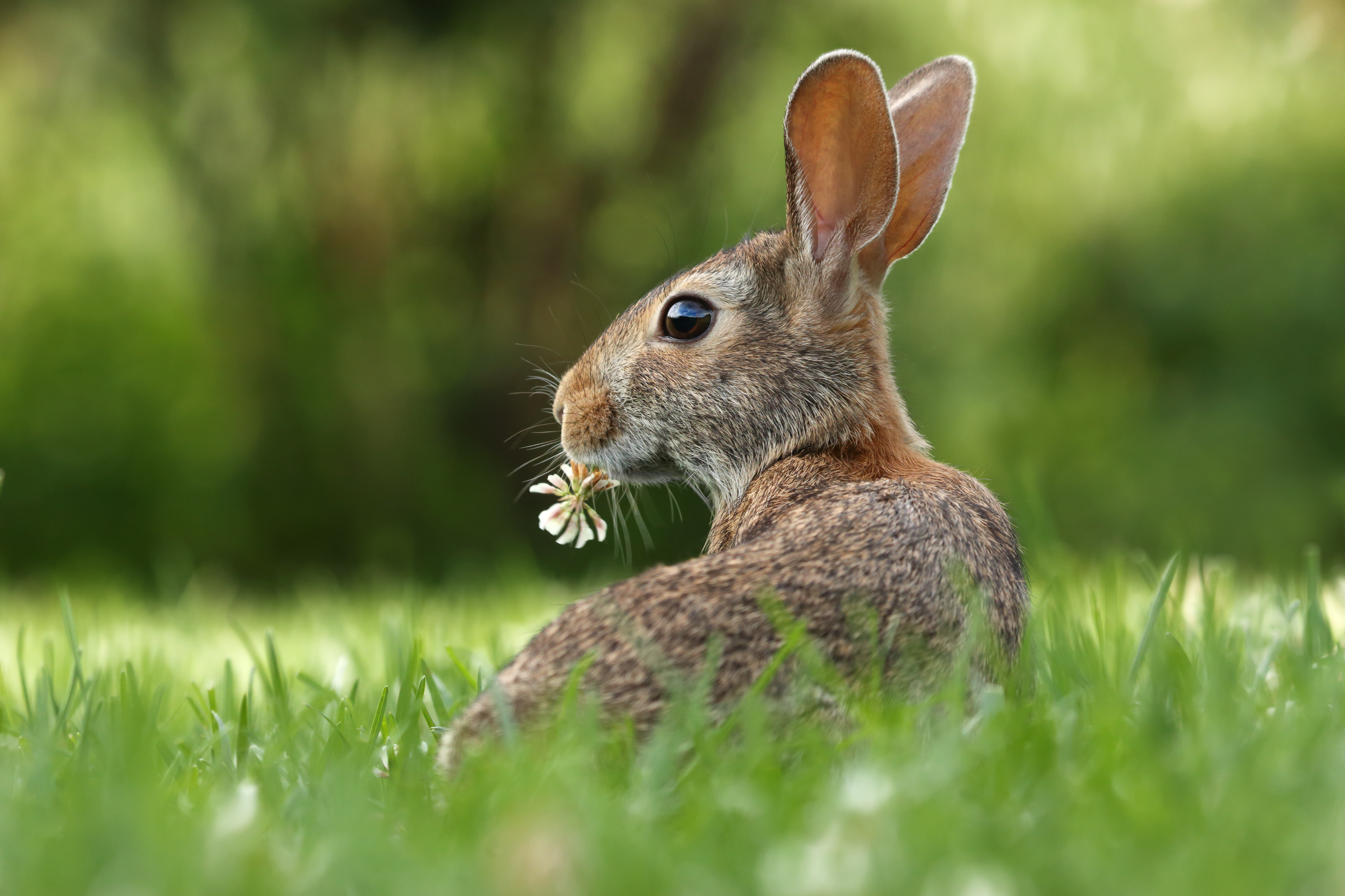 Gary Bendig 2016